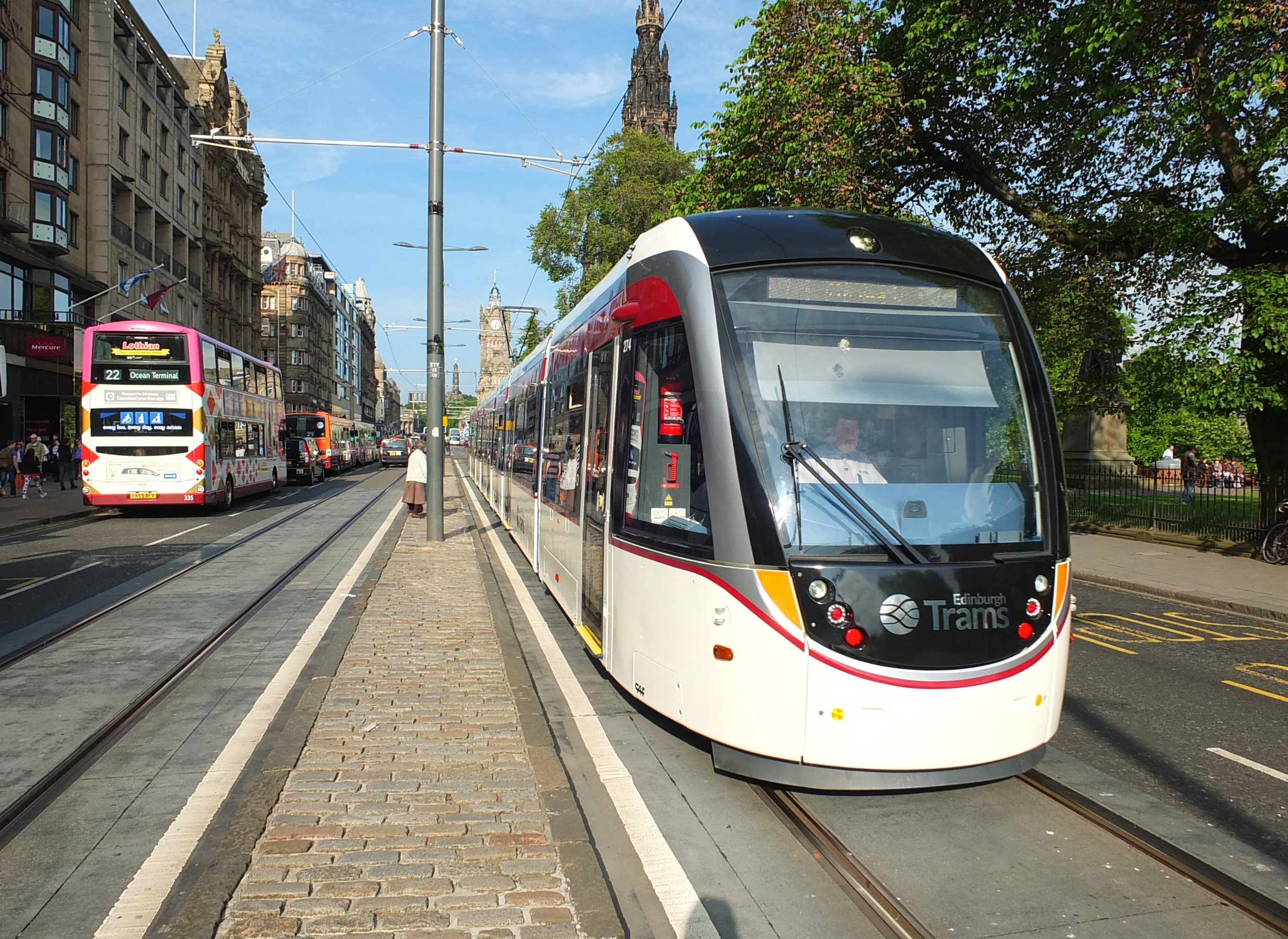 One of the Edinburgh Trams heading west along Princes Street, on the day the line was opened to the public. It's approaching the Hanover Street/Mound junction, beyond which is the Princes Street stop. Heading the other way are some Lothian Buses.